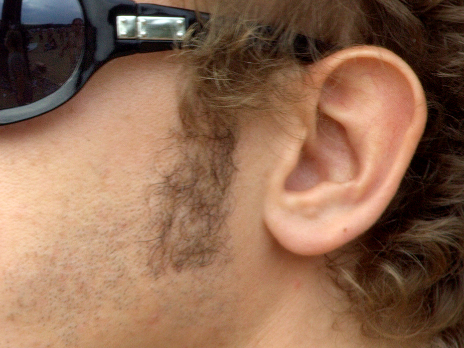 Sideburns